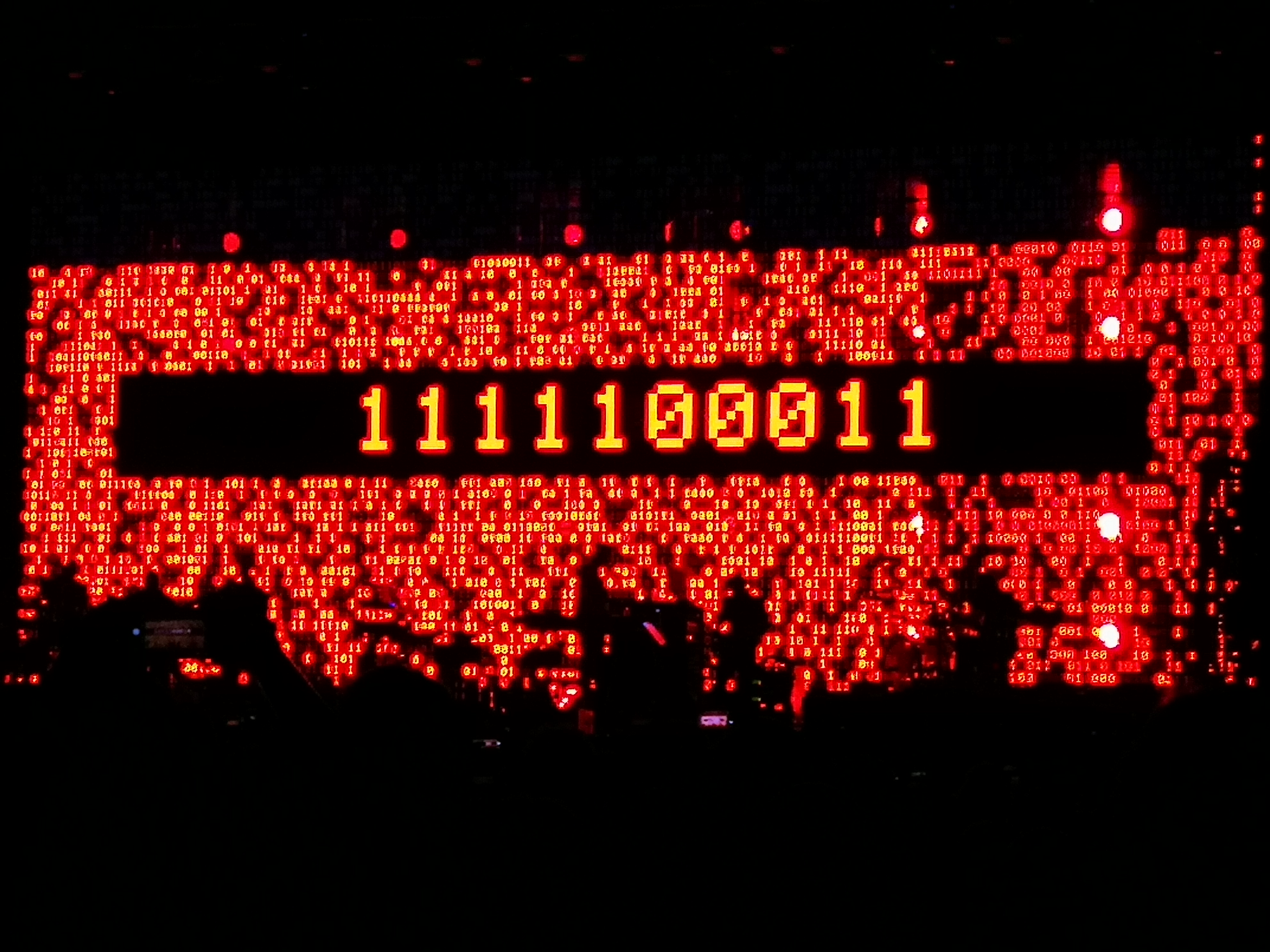 Massive Attack live at Piazza del Sordello in Mantova on July 15th, 2018